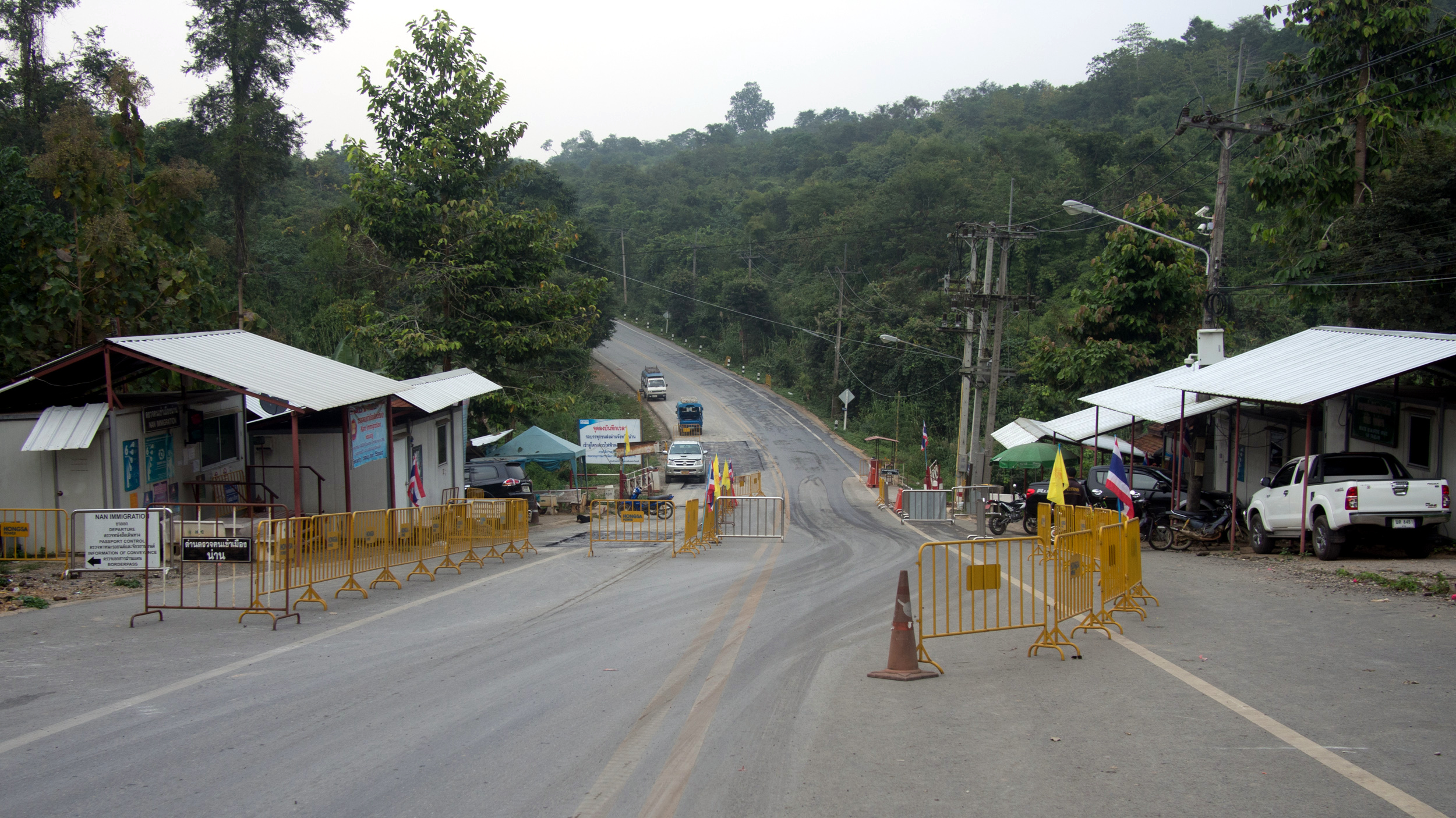 Huai Kon border checkpoint, Thai side